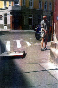 B. Kronheim performing an Tischbild object in public space.